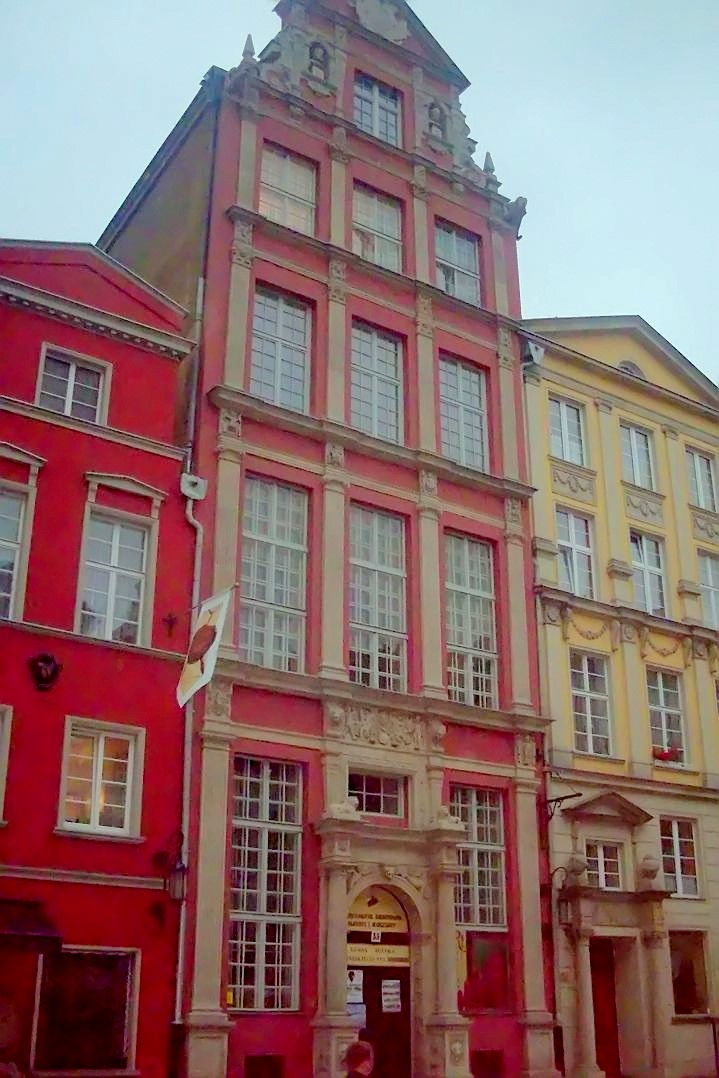 The Lions Castle is the tenement in Gdańsk, at the Długa Street 35. The name is probably descended from two sculptures, representative lions.